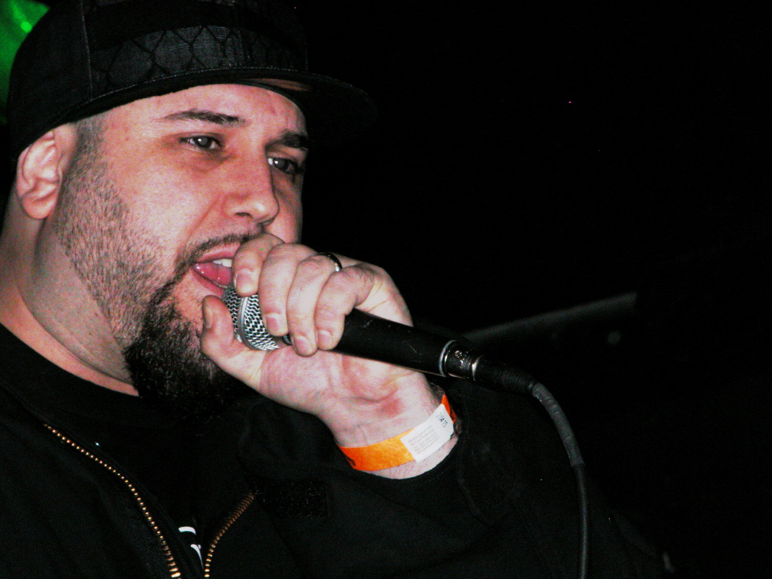 Ill Bill